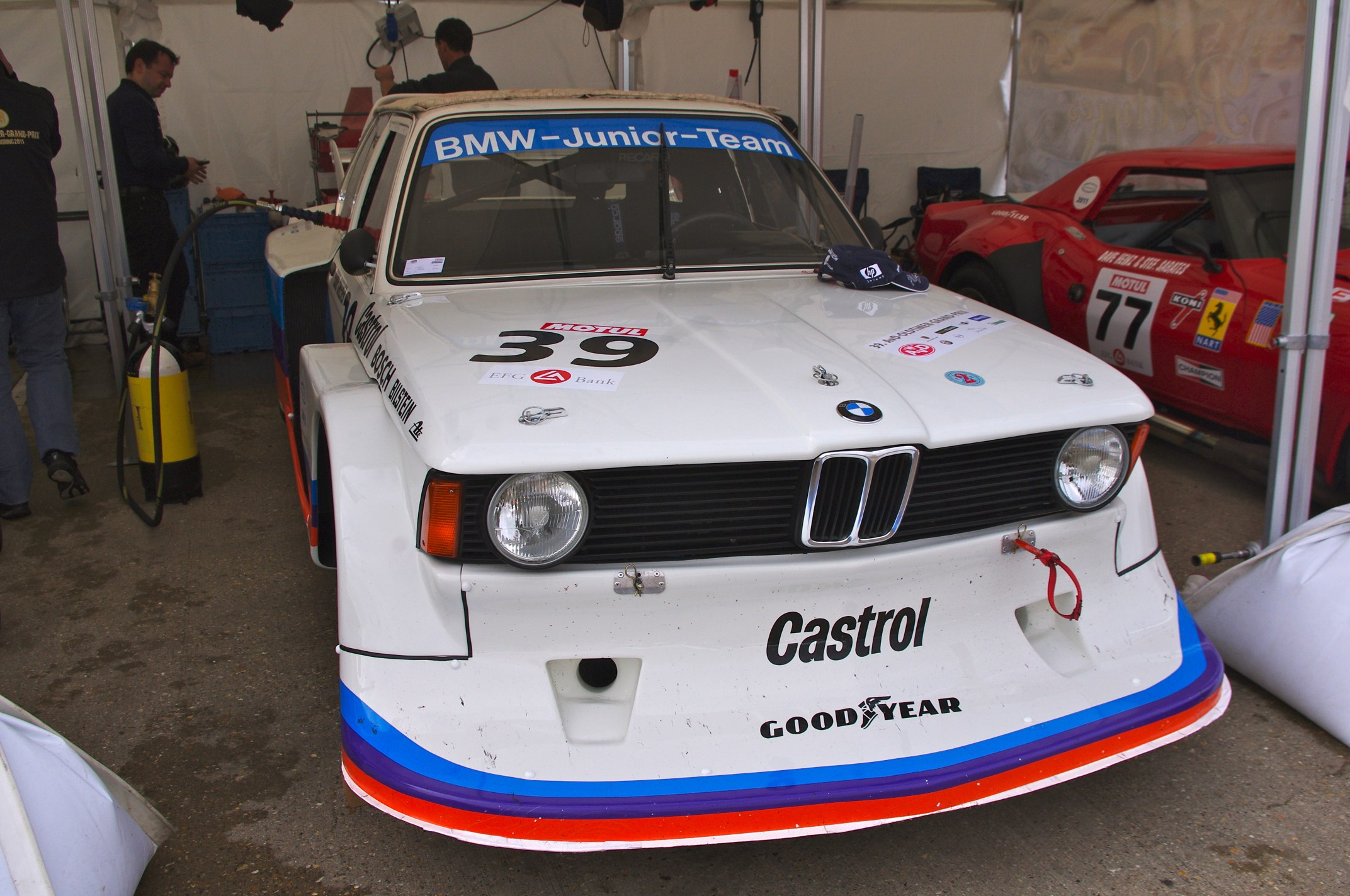 1977 BMW 320i GR5 at Classic Endurance Racing, support event for 6 Hours of Silverstone 2011